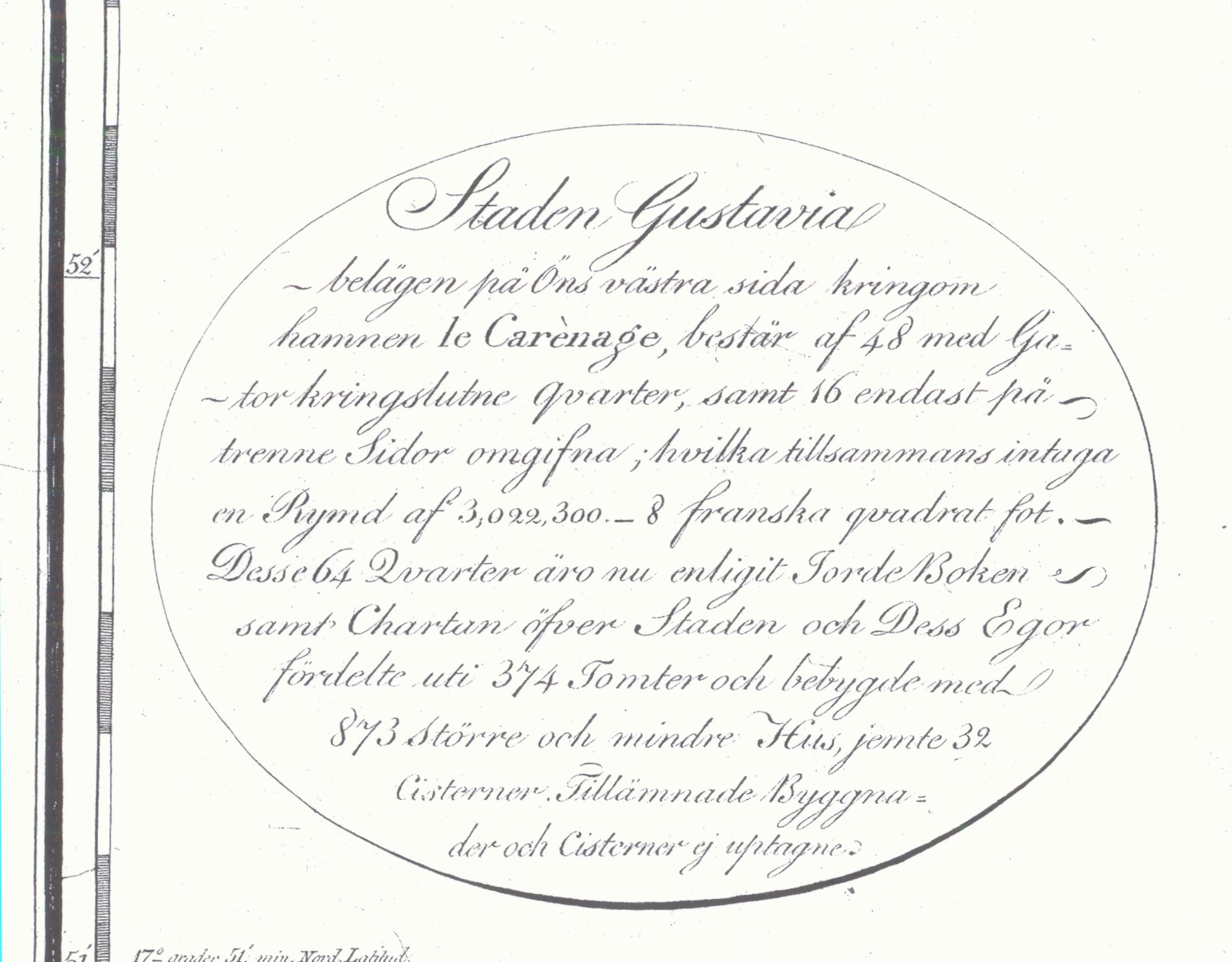 St. Barthélemy (French island in the Caribbean) map of 1801, with quartier boundaries